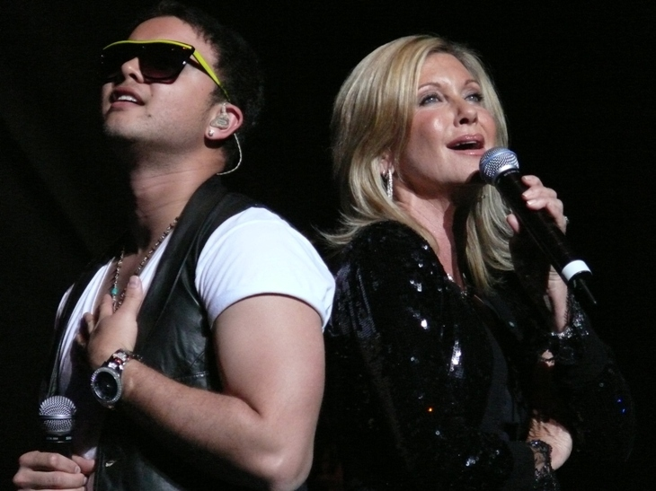 Photo of Guy Sebastian and Olivia Newton-John taken at the Sydney State Theatre during th Olivia newton-John & Friends Concert